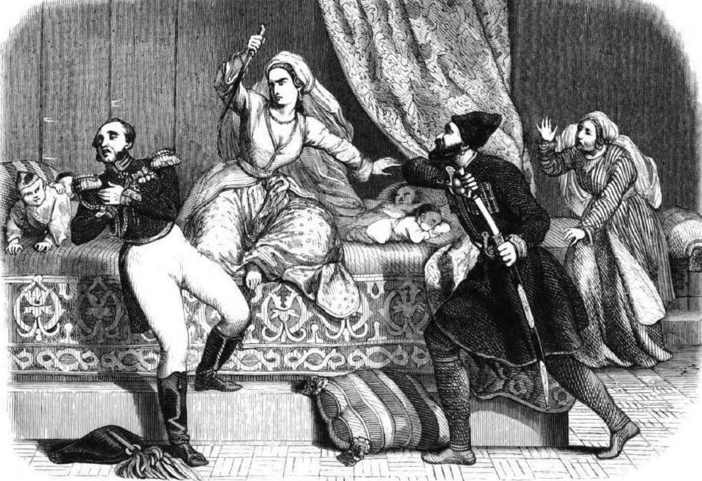 Arrest of Maria, Queen of Georgia, in 1801 (Geoffroy, 1845)